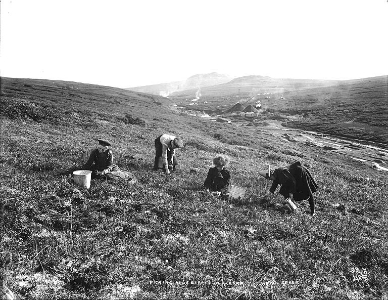 Caption on image: "Picking blue berry's in Alaska. Anvil Creek" Original photograph by Eric A. Hegg 1619; copied by Webster and Stevens 32.A Subjects (LCTGM): Children--Alaska--Nome Subjects (LCSH): Blueberries--Alaska--Nome